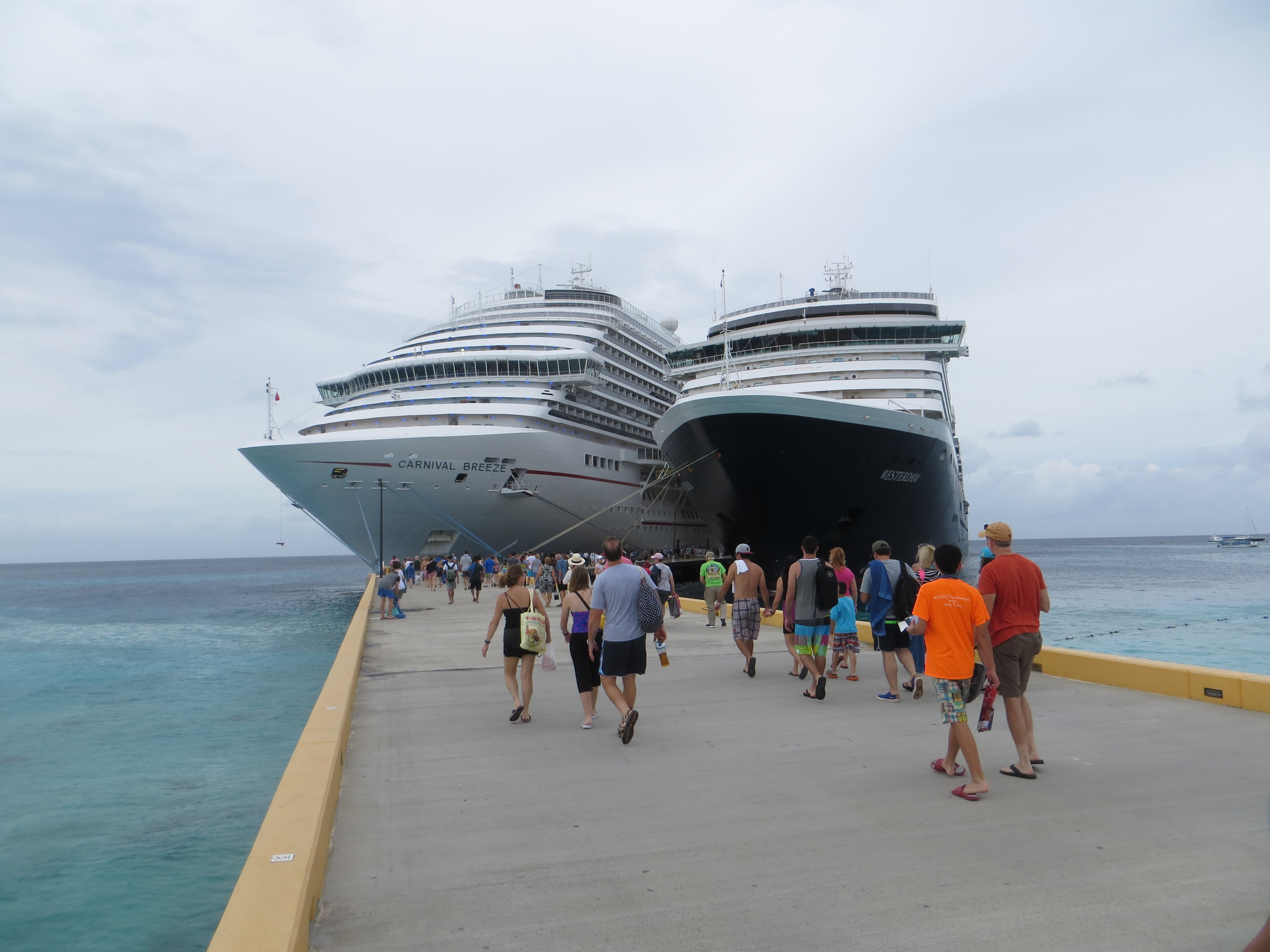 Carnival Breeze and MS Westerdam docked in Grand Turk, Turks and Caicos.